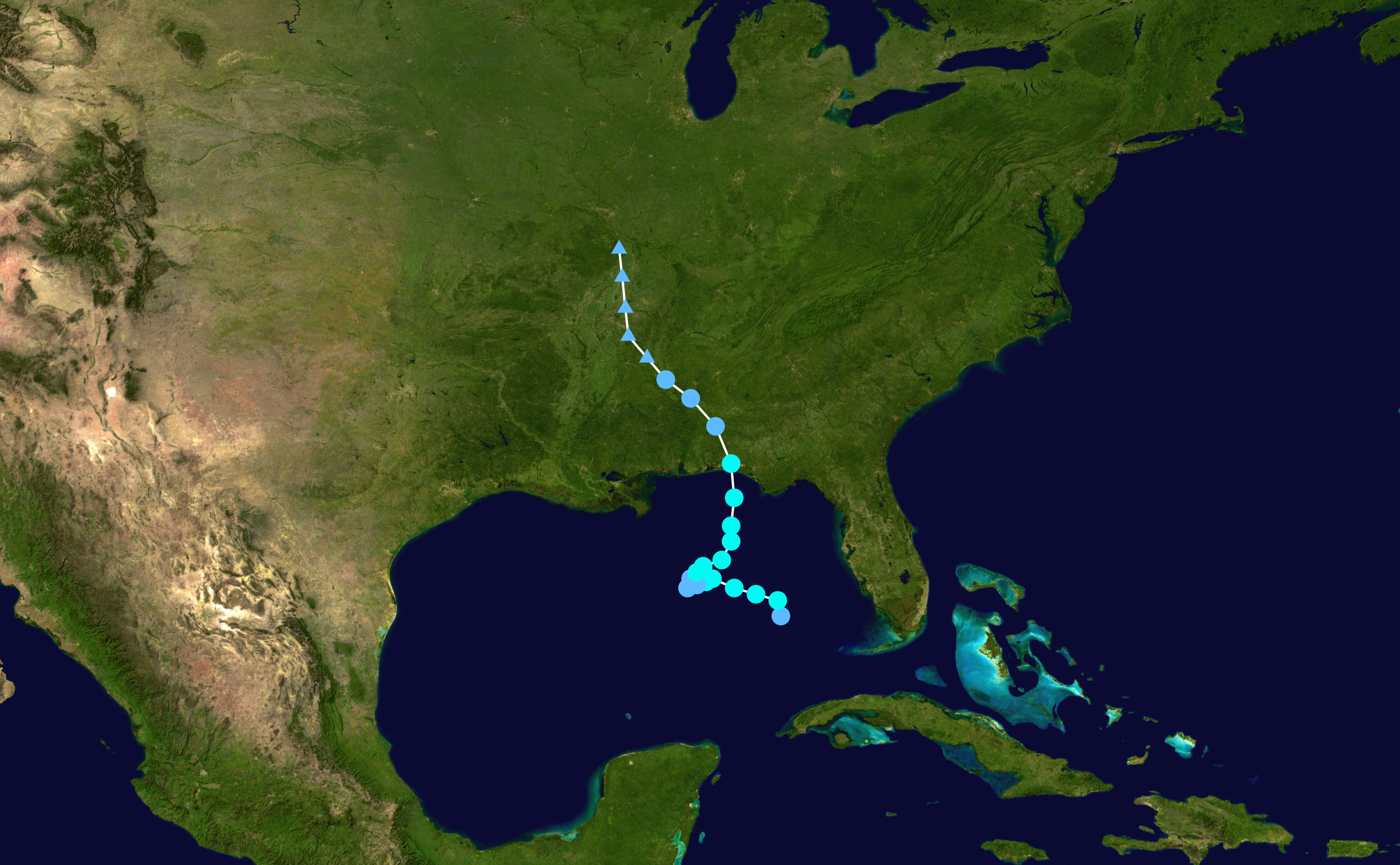 Track map of Tropical Storm Barry of the 2001 Atlantic hurricane season. The points show the location of the storm at 6-hour intervals. The colour represents the storm's maximum sustained wind speeds as classified in the Saffir–Simpson scale (see below), and the shape of the data points represent the nature of the storm, according to the legend below. Saffir–Simpson scale Tropical depression≤38 mph≤62 km/h Category 3111–129 mph178–208 km/h Tropical storm39–73 mph63–118 km/h Category 4130–156 mph209–251 km/h Category 174–95 mph119–153 km/h Category 5≥157 mph≥252 km/h Category 296–110 mph154–177 km/h Unknown Storm type Tropical cyclone Subtropical cyclone Extratropical cyclone / Remnant low / Tropical disturbance / Monsoon depression